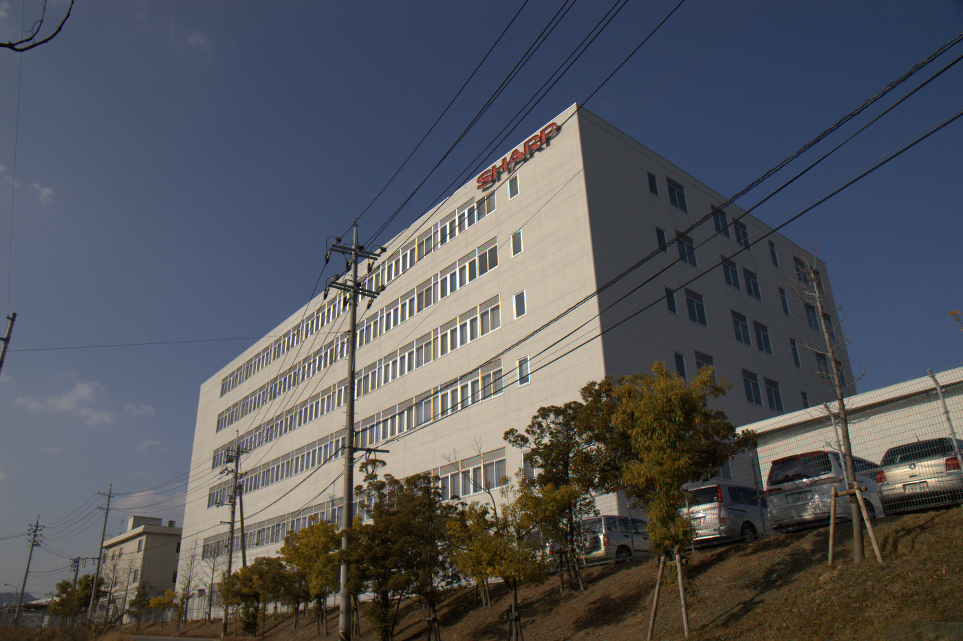 Sharp Hiroshima Plant in Higashihiroshima , Hiroshima pref., Japan.